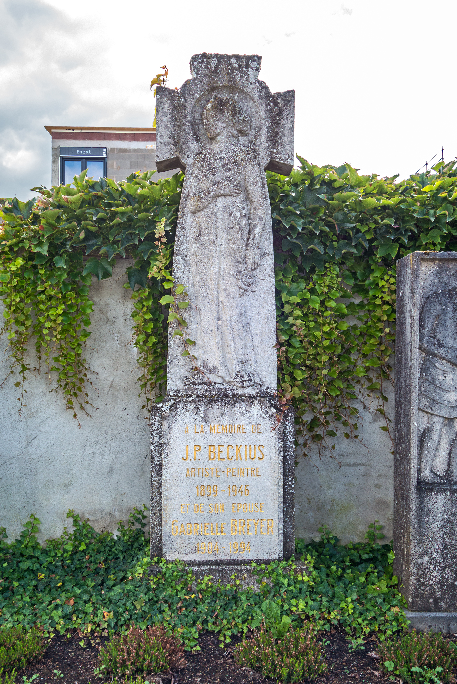 Grave stone as memorial for the painter J.P. Beckius in Mertert